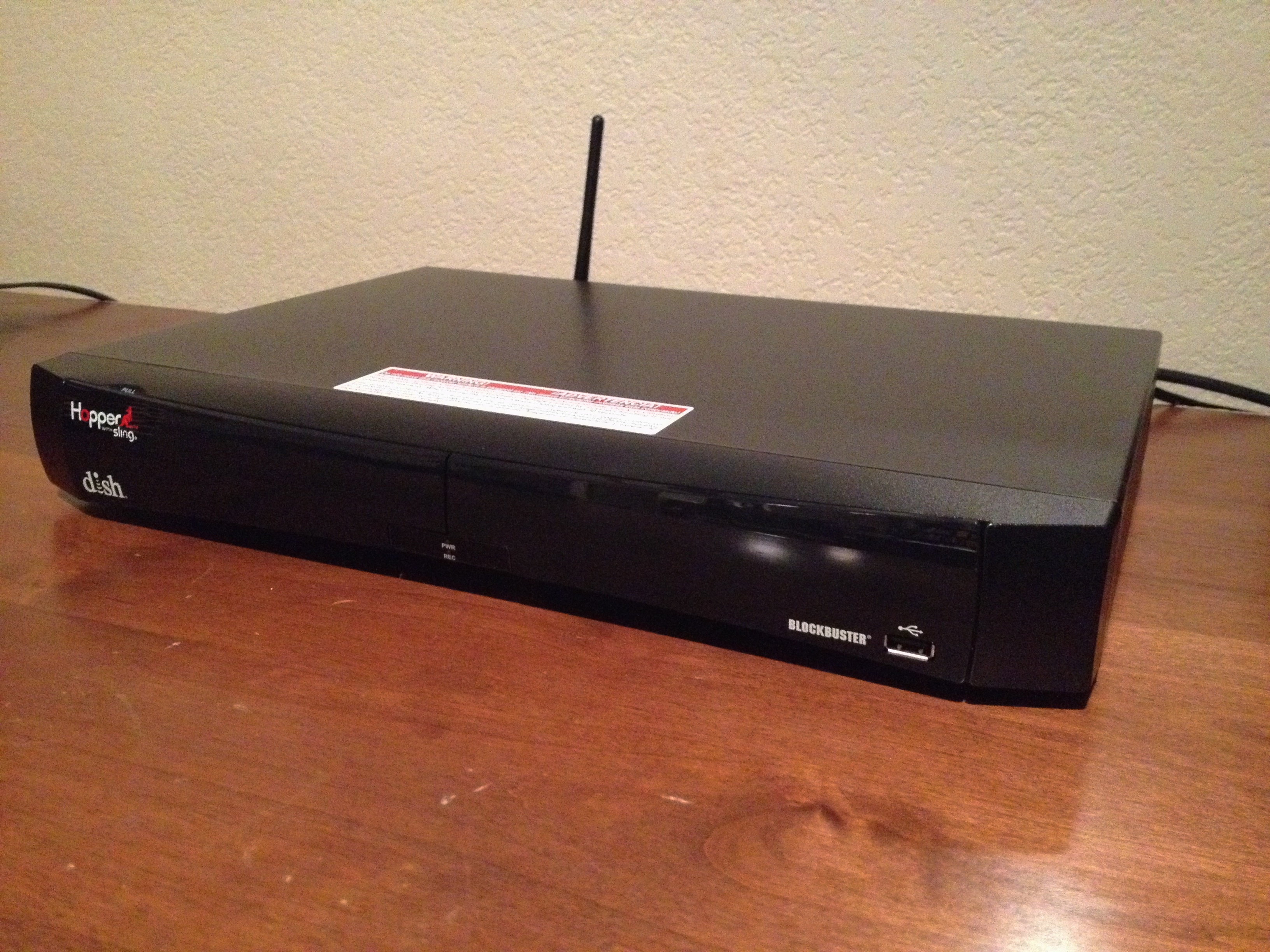 Picture of the Hopper with Sling